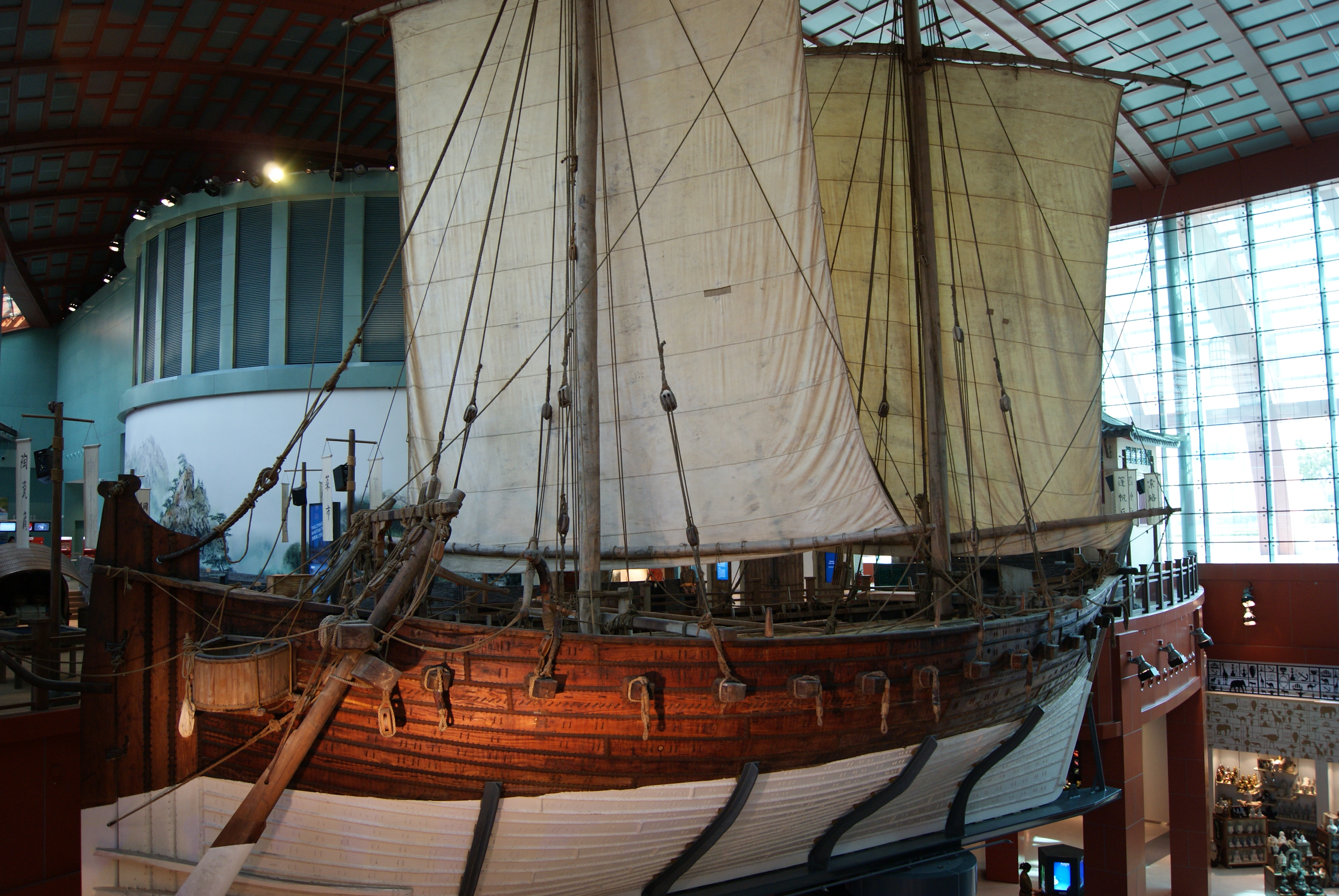 The Jewel of Muscat, a dhow built in Qantab, Muscat Governorate, Oman, between 2008 and 2010 as a joint project of the Governments of Oman and Singapore. It was modelled after the Belitung shipwreck, a 9th-century Arabian dhow. The Jewel of Muscat sailed from Oman on 16 February 2010, visiting Kochi, India; Galle, Sri Lanka; and George Town, Penang, and Port Klang in Malaysia. It arrived in Singapore on 3 July 2010, where it was handed over to the people of Singapore as a gift from Oman.